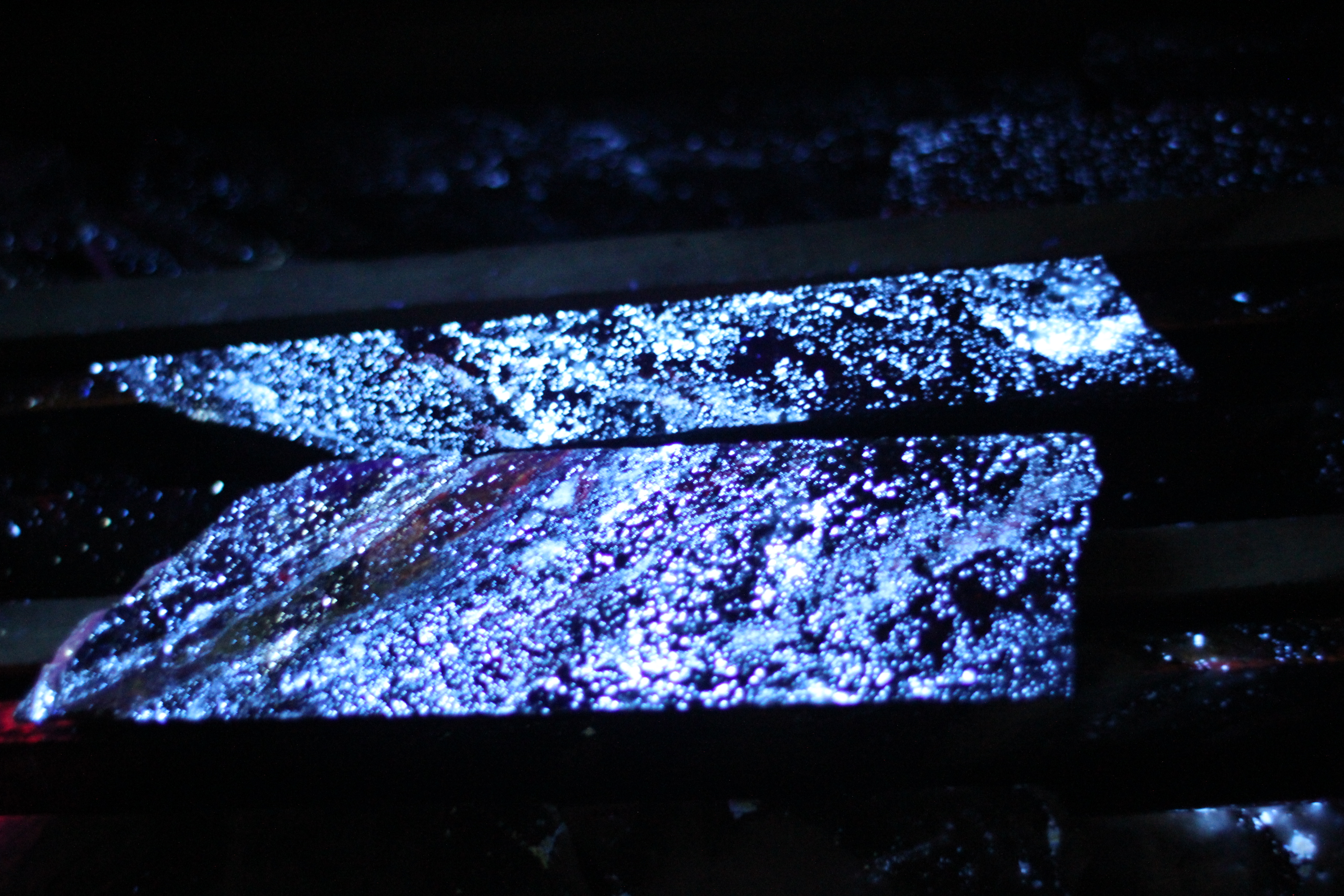 When it exposes to UV mineral light, a high WO3 element (scheelite) or Sangdong ore glows under unltraviolet light.